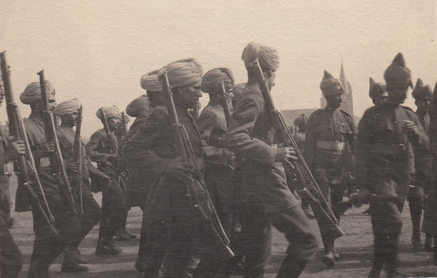 Indian troops on parade in Tientsin, probably inside the British concession. 1920s.